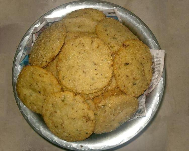 'paththiri' is a food product in Kerala.